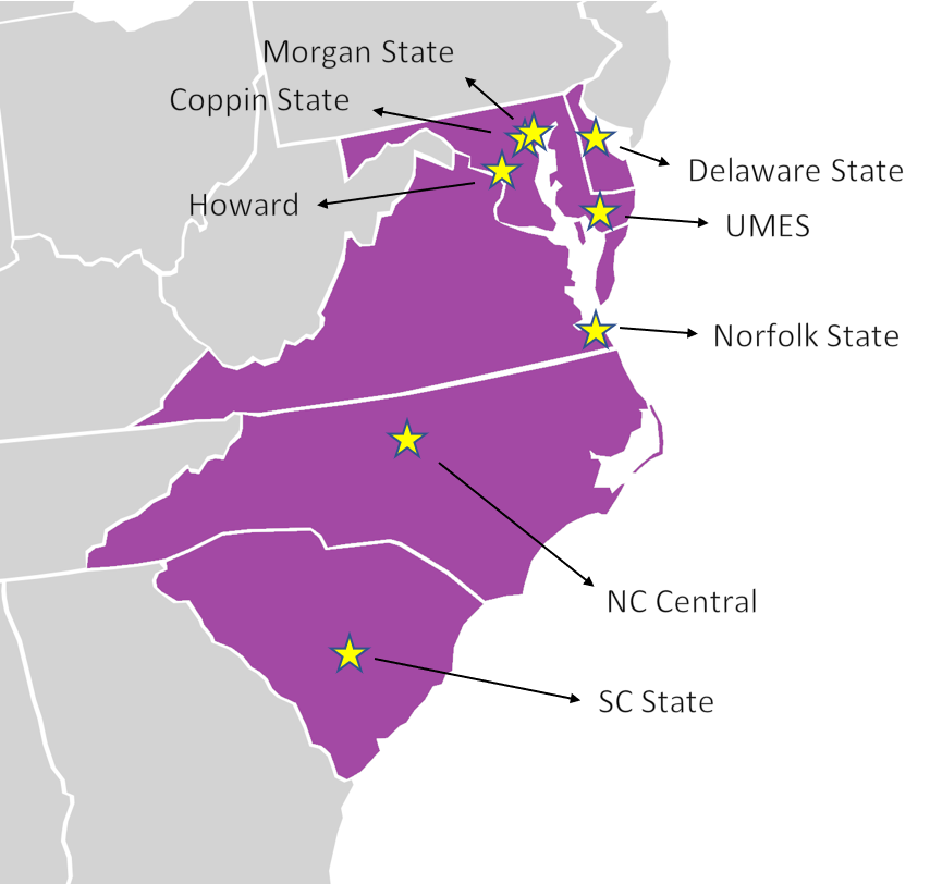 MEAC Locations 2021